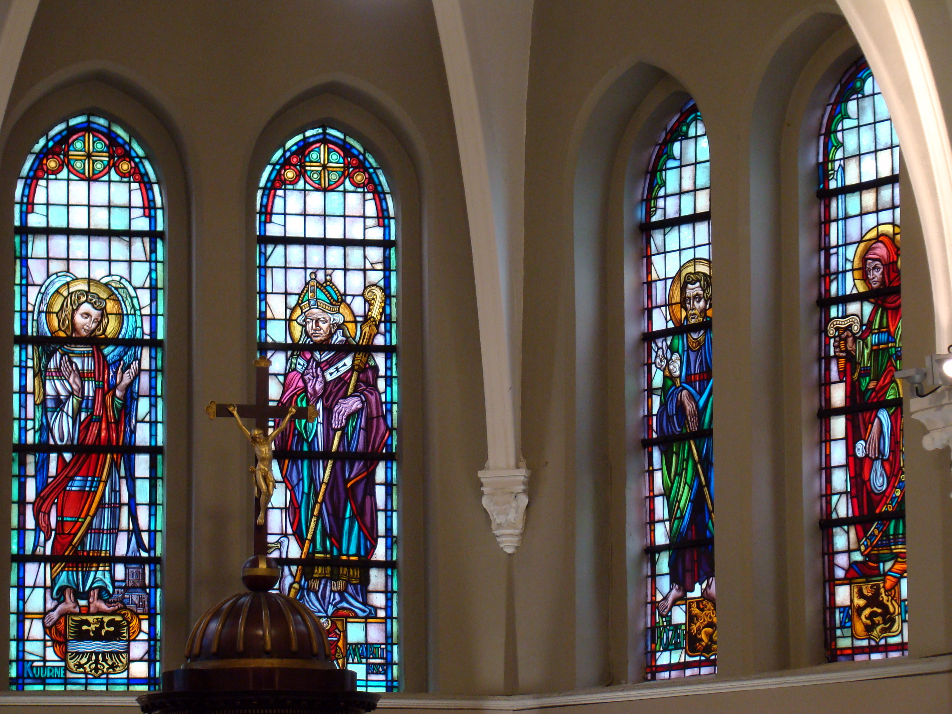 Sint-Michiels church Kuurne (West Flanders, Belgium)